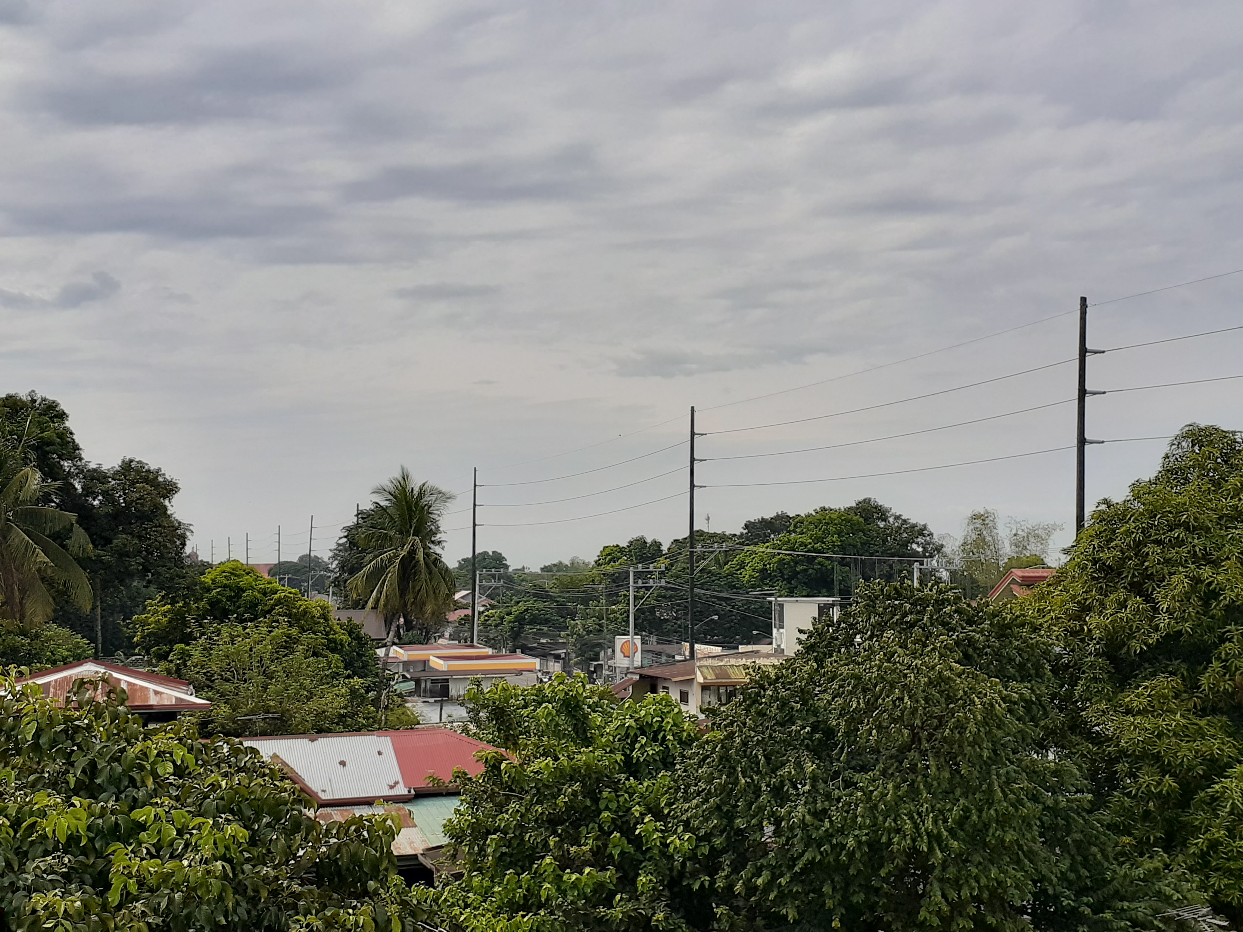 Skyline of the municipality of Pulilan in Bulacan province, the Philippines, as seen from the 4th floor of the Colegio de Santa Philomena (CdSP) school building. Filipino: Panoramang urbano ng bayan ng Pulilan sa lalawigan ng Bulacan, Pilipinas, tanaw mula sa ika-apat na palapag ng gusaling pampaaralan ng Colegio de Santa Philomena (CdSP).